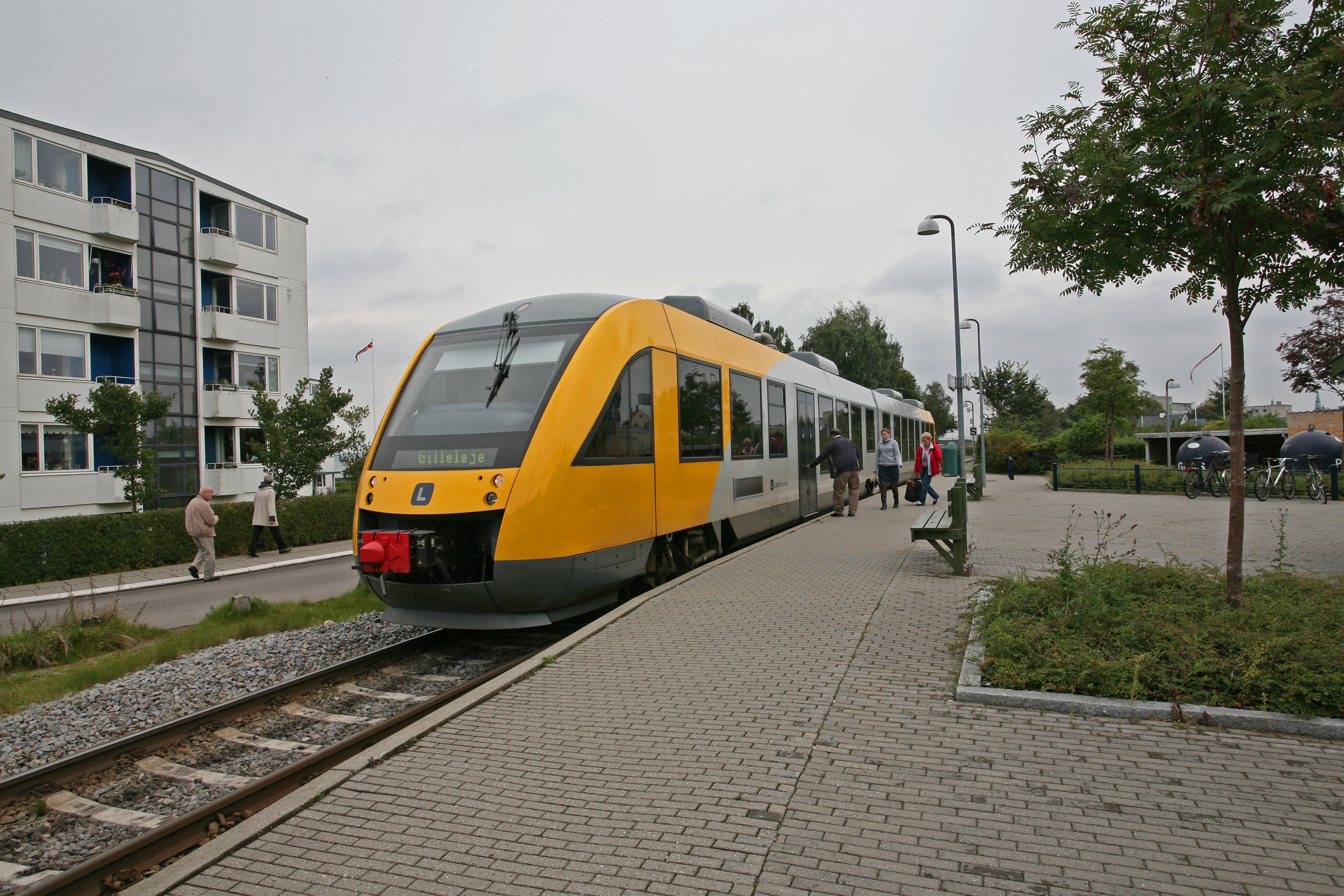 Picture of Marielyst Railway Station (Helsingør - Denmark)